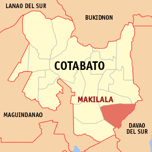 Map of the Cotabato showing the location of Makilala